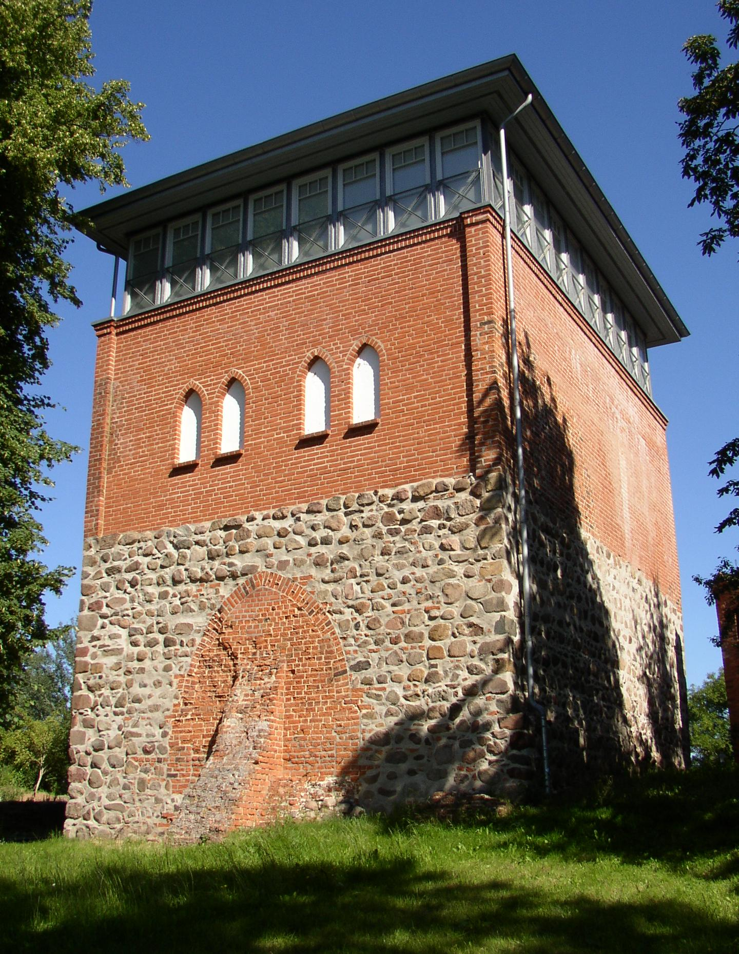 „Amtsbergturm“ in Wittenburg in Mecklenburg-Western Pomerania, Germany